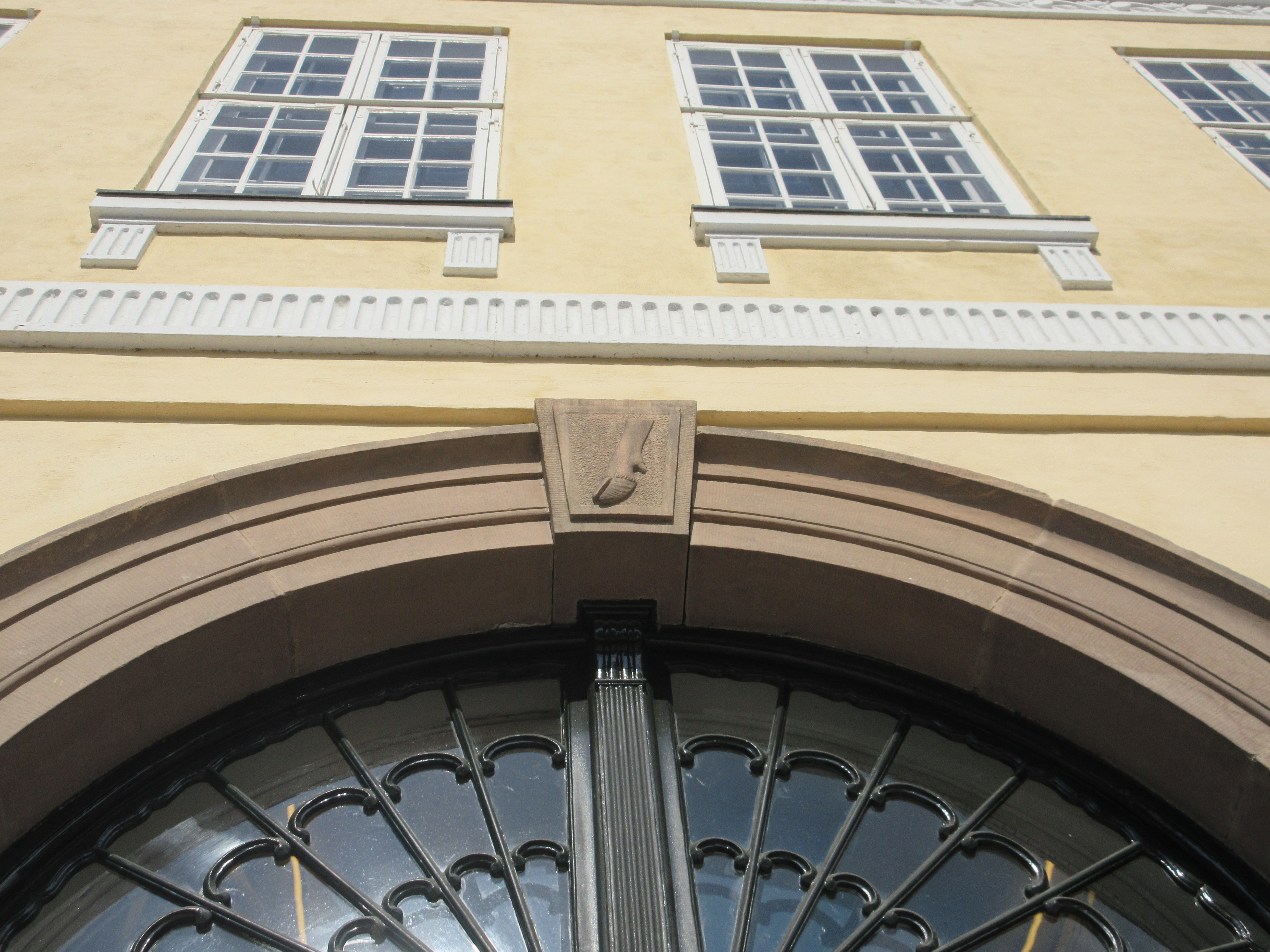 The keystone of Heerings Gård in Christianshavn, Denmark. It features a cow's foot, a reference to the name of its builder whose name was Kofoed.